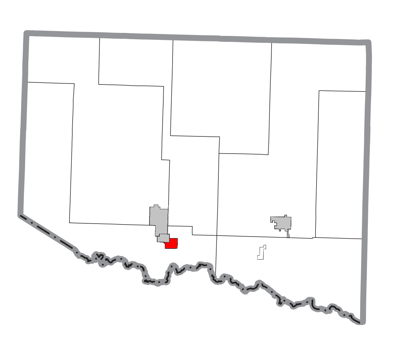 Gaastra, MI